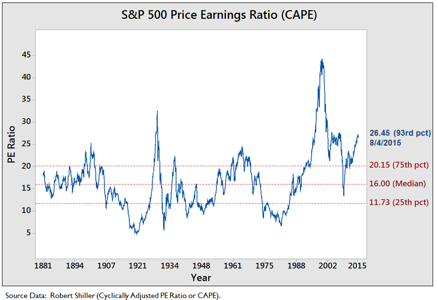 SP 500 PE Ratio since 1871 based on data from website of economist Robert Shiller